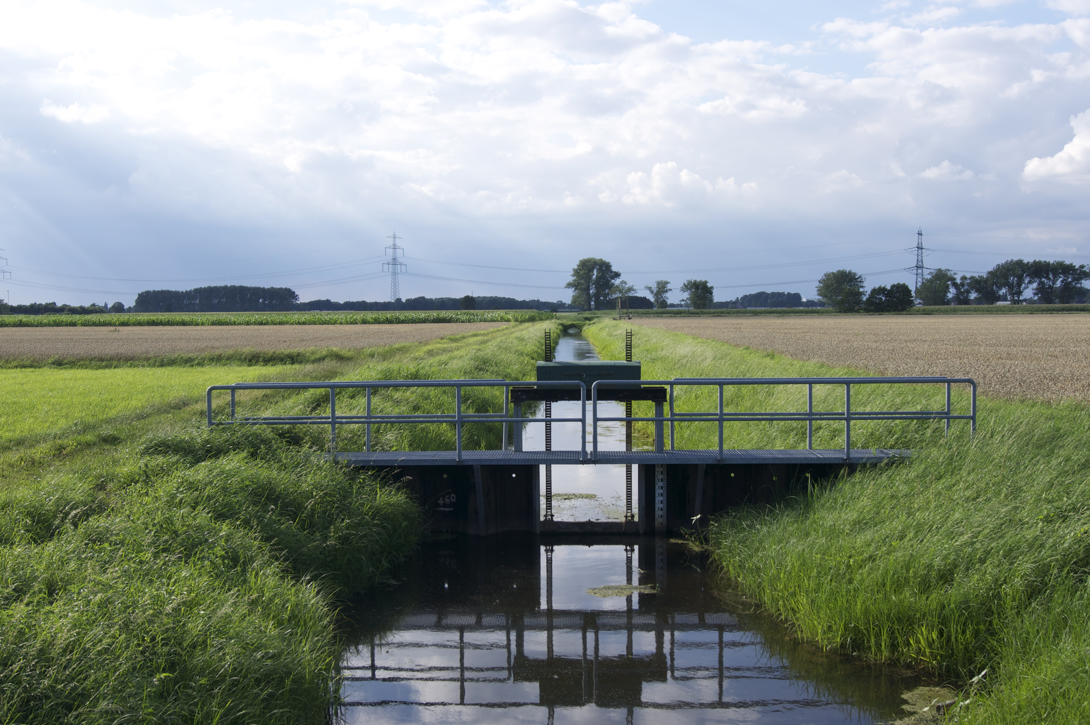 Hamburg (Reitbrook), Germany: Reitbrook principal drainage canal